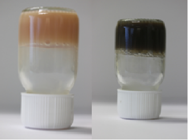 Hydrogel